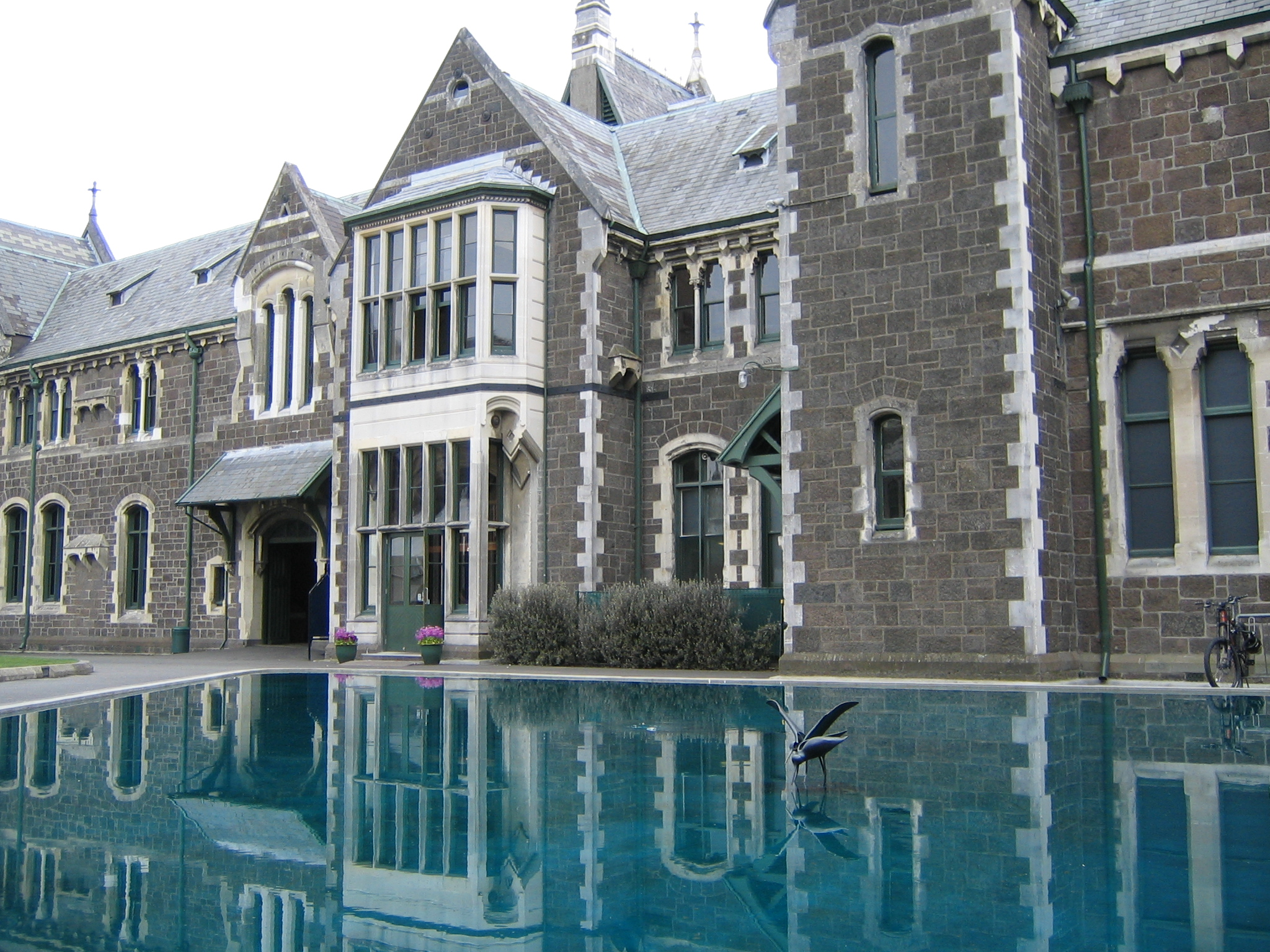 Pond at the Arts Centre, Christchurch, New Zealand. New Zealand Historic Places Trust Register number: 7301.